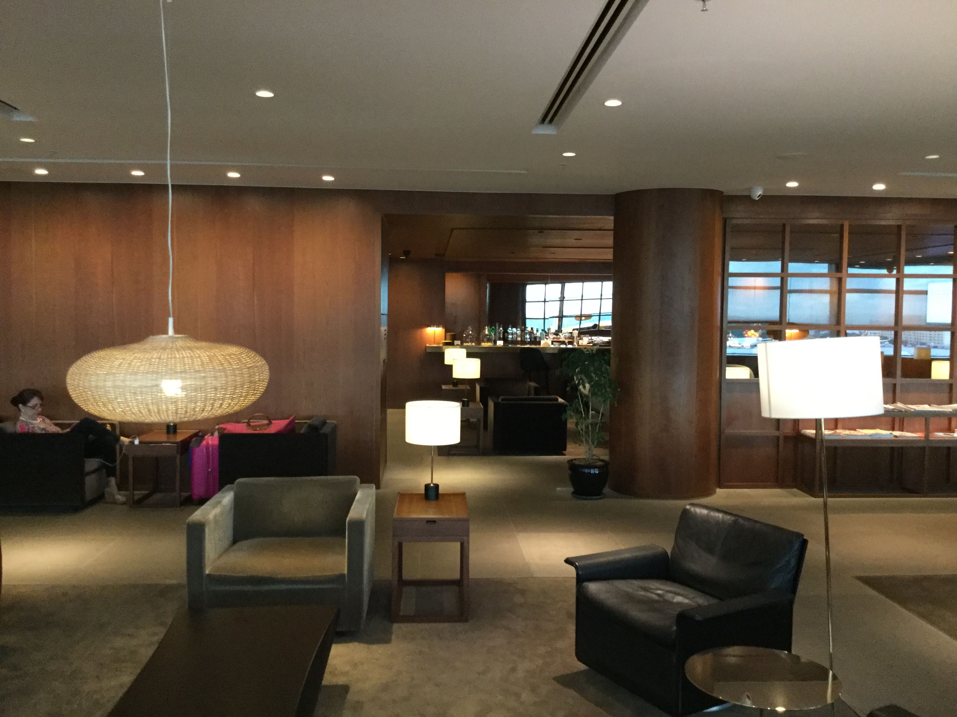 The general area of the Cathay Pacific lounge at NAIA T3.